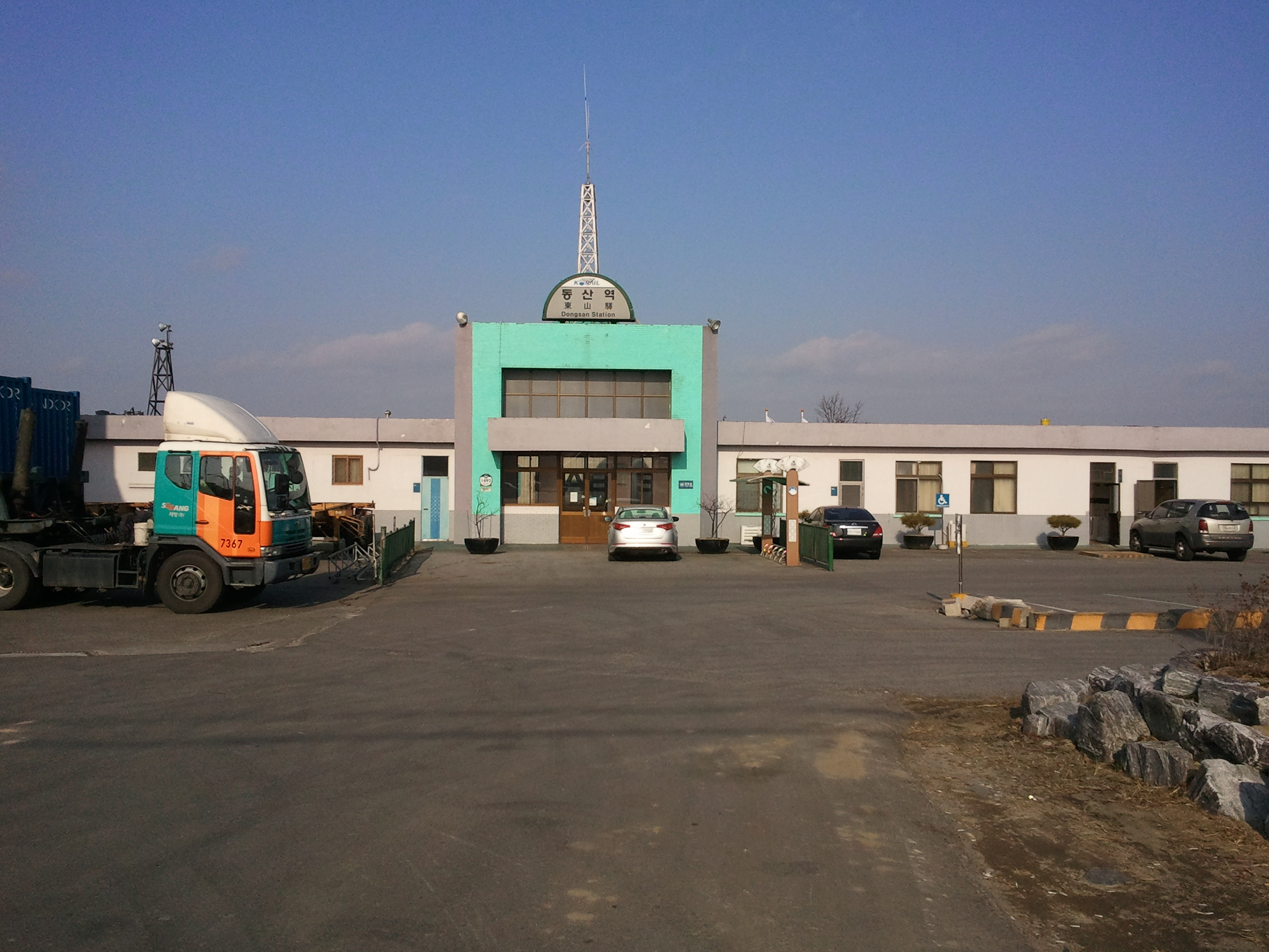 Former building of Dongsan station, Jeolla line, Jeonju. Building dismantled at 2012.